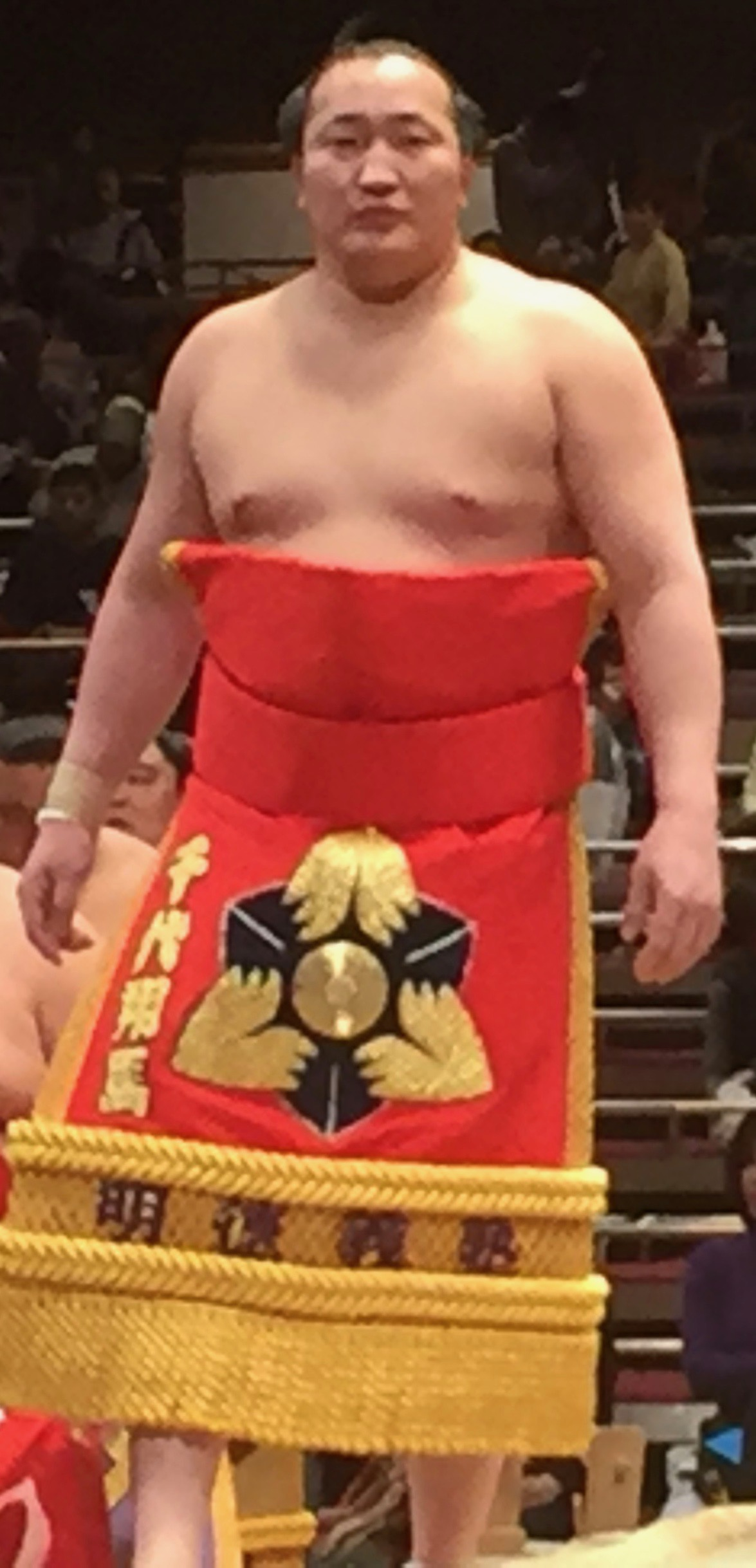 taken at tournament